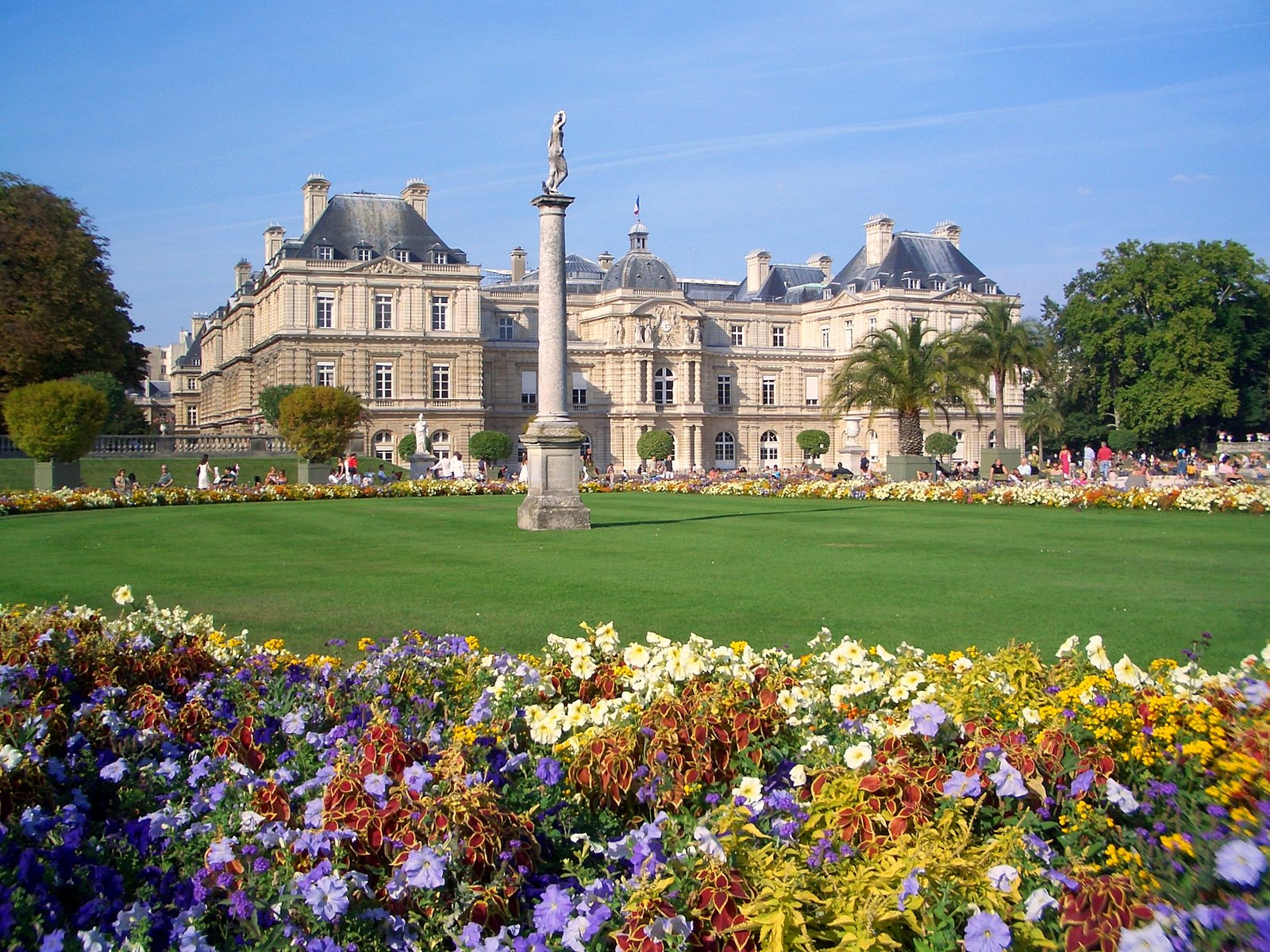 Square in Paris 6 arrondissement (district)